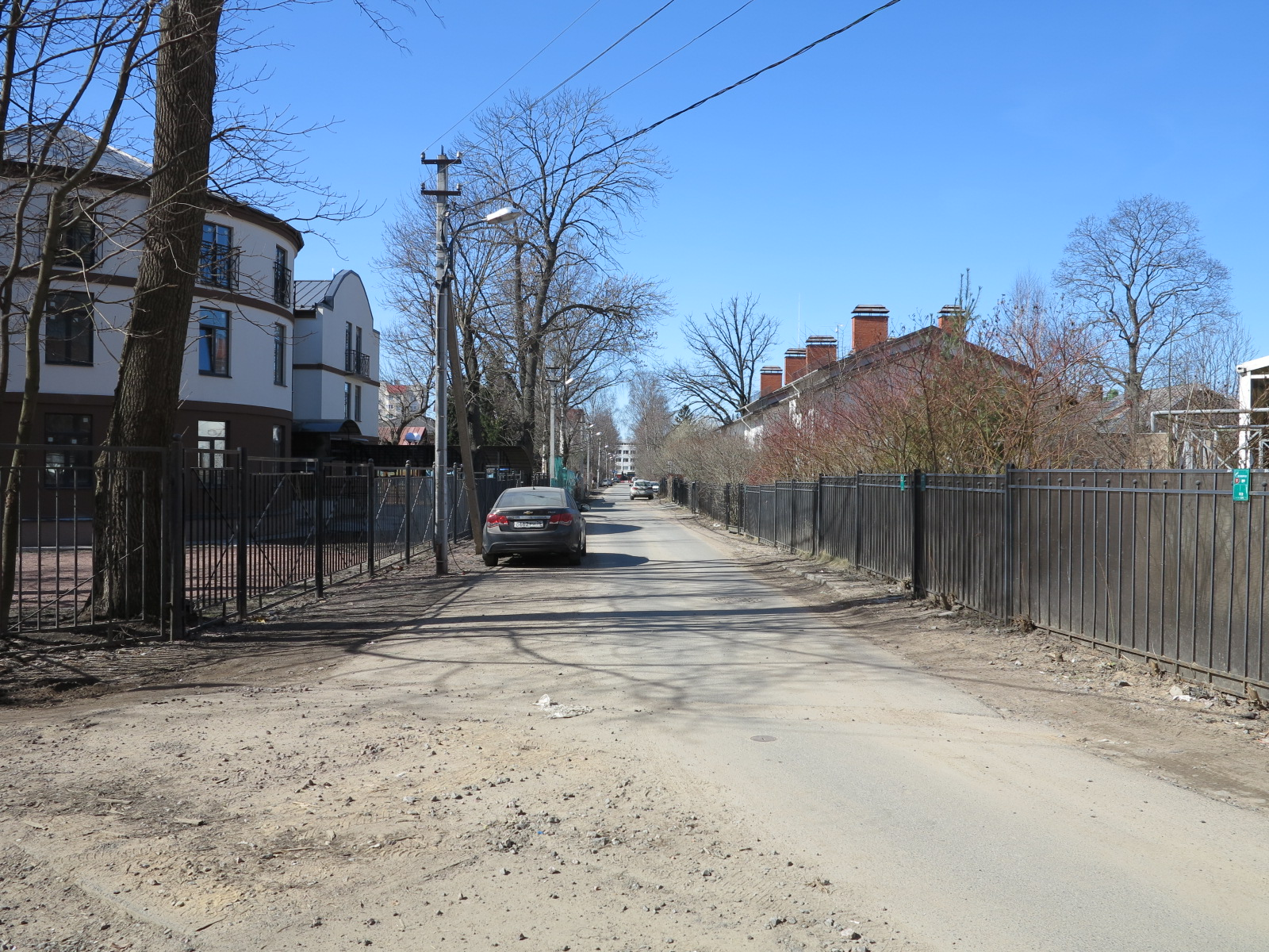 Estonskaya Street in Saint Petersburg